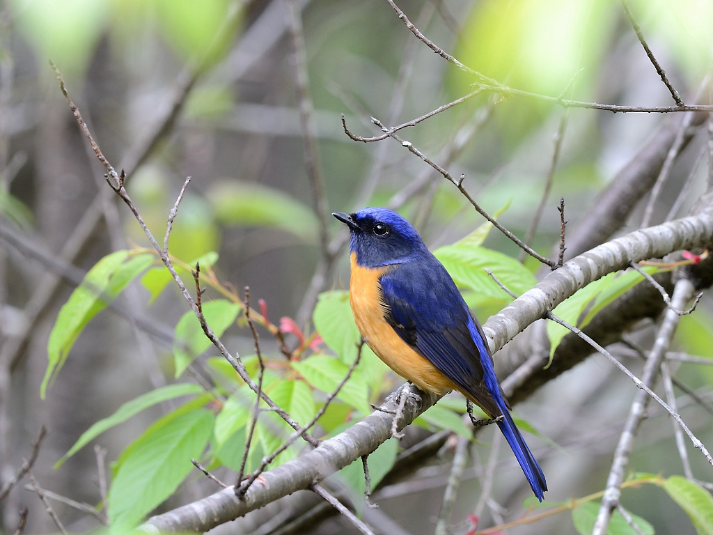 taken at Baxinshan, Taichun City, Taiwan.